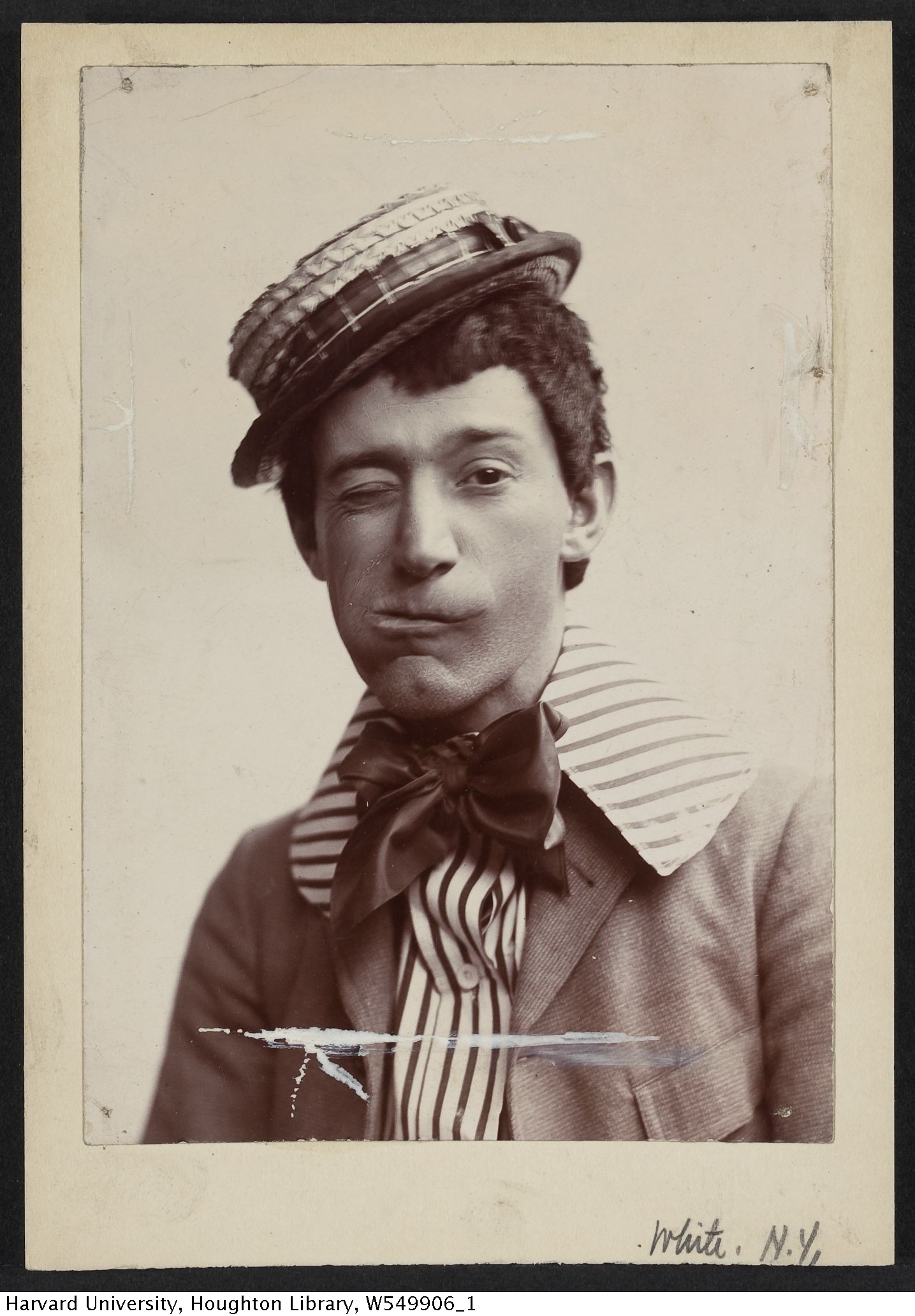 Cabinet card image of American minstrel and vaudeville performer Billy B. Van (1878-1950), in costume as a character labeled "Patsy in Polotics". TCS 1.1032, Harvard Theatre Collection, Harvard University.